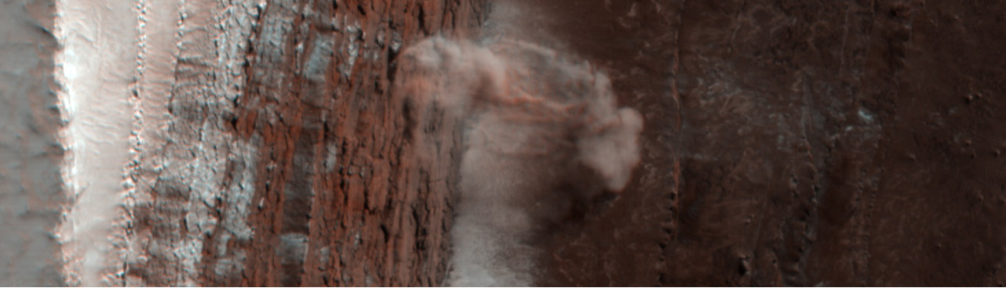 The avalanche on Mars, February 19th 2008